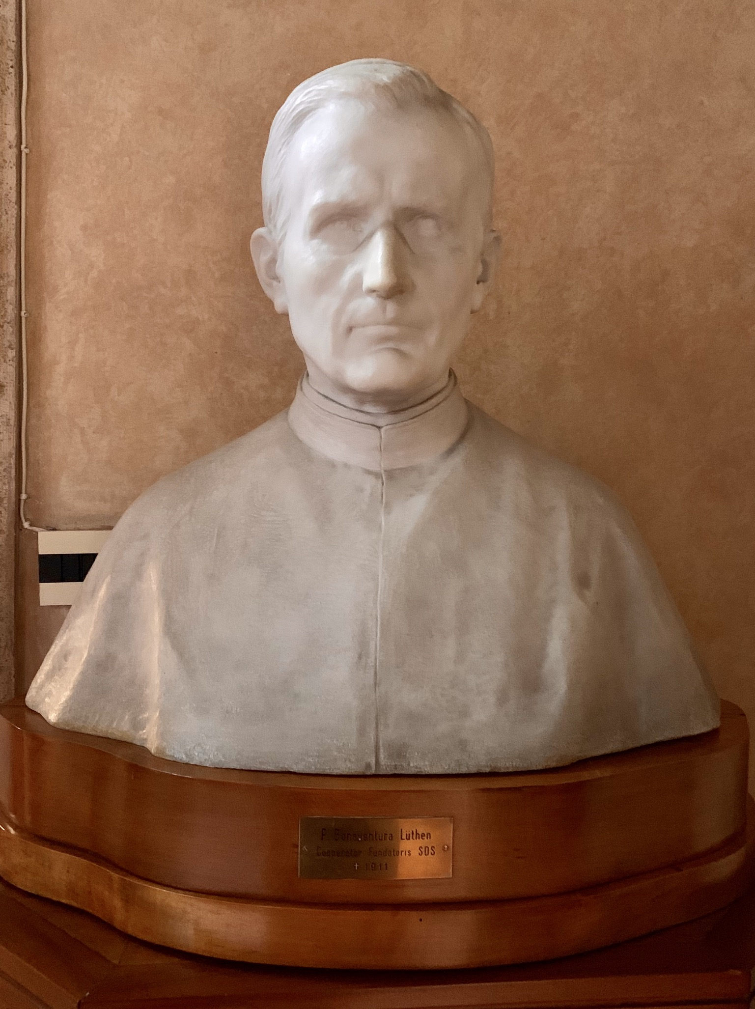 A bust of Father Bonaventure Luthen (by Prof. Seebock, Rome) in the motherhouse of the Salvatorian Priests and Brothers in Rome